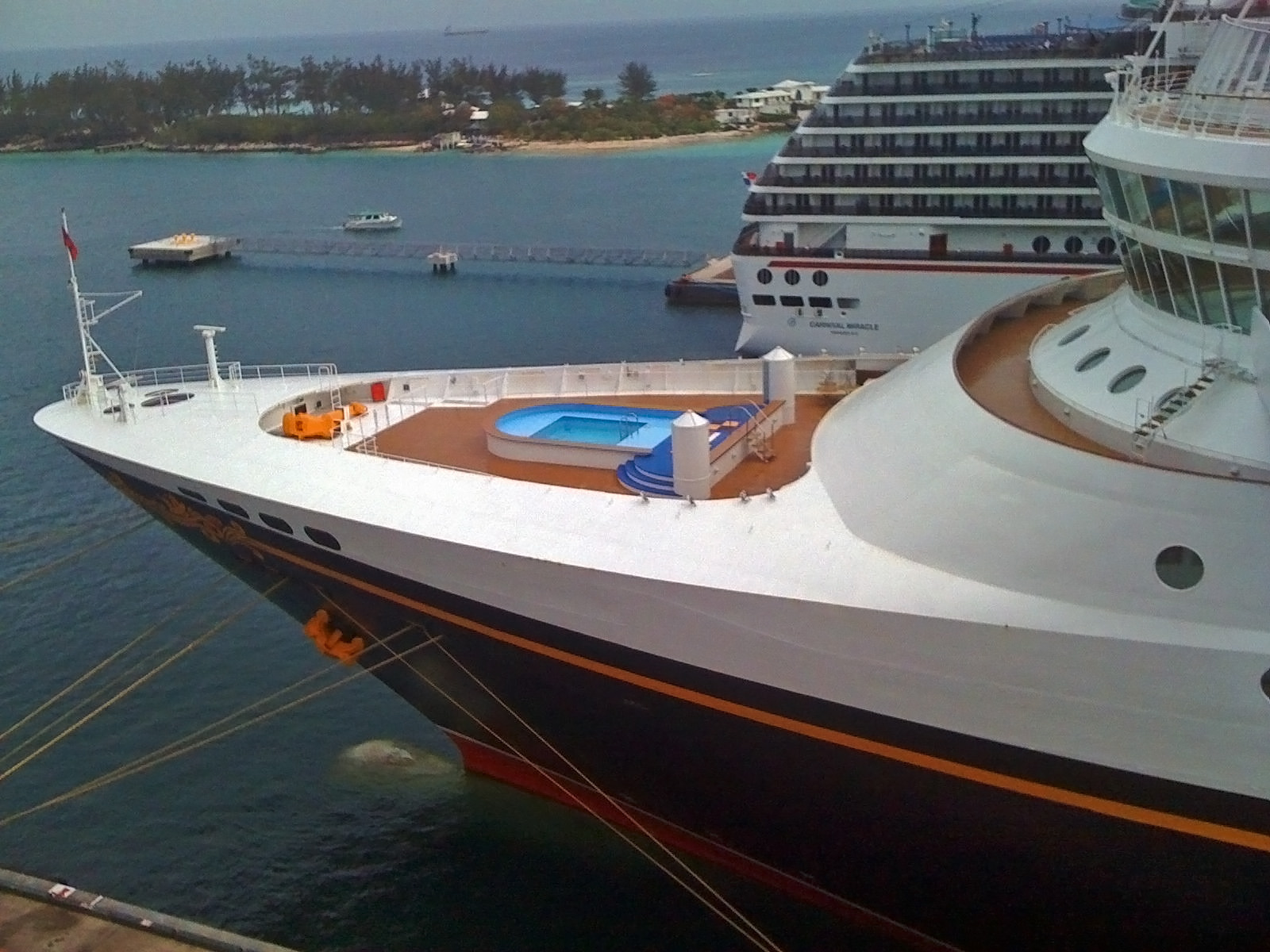 Front bow and crew pool on the Disney Wonder, in port in Nassau, Bahamas. Information about Disney Wonder may be found at IMO 9126819.A ship can change name and flag state through time, but the IMO number remains the same through the hull's entire lifetime. As a result, it can be useful to identify a ship by using the IMO number.